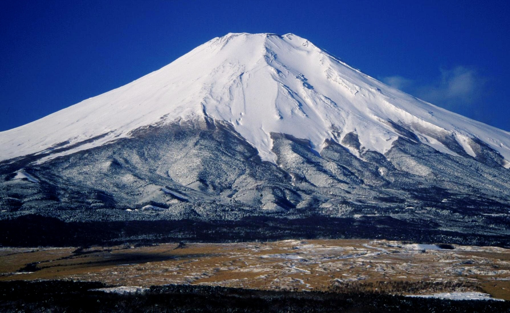 Mount Fui from Hotel Mt Fuji